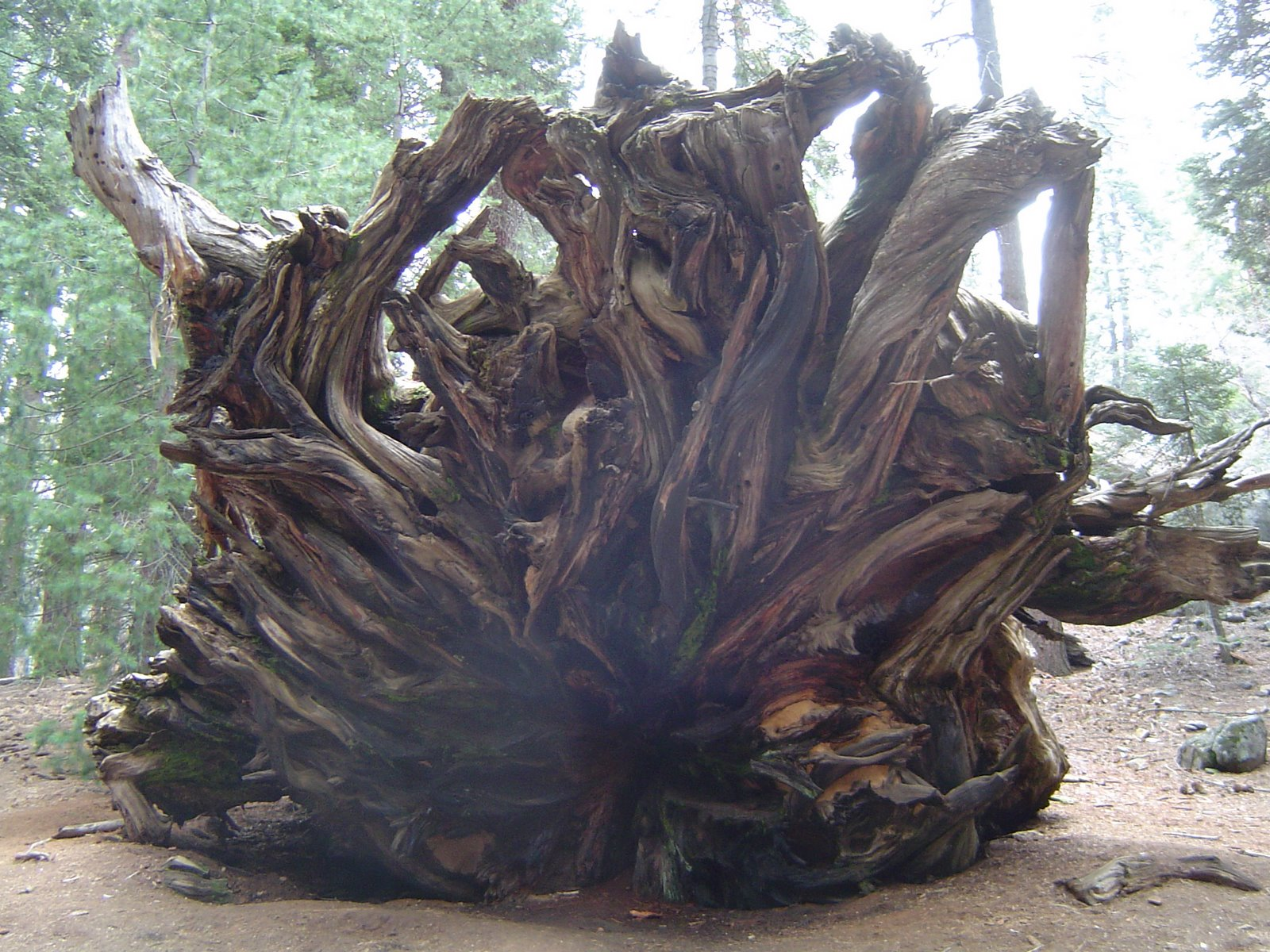 Root of Giant Sequoia that fell